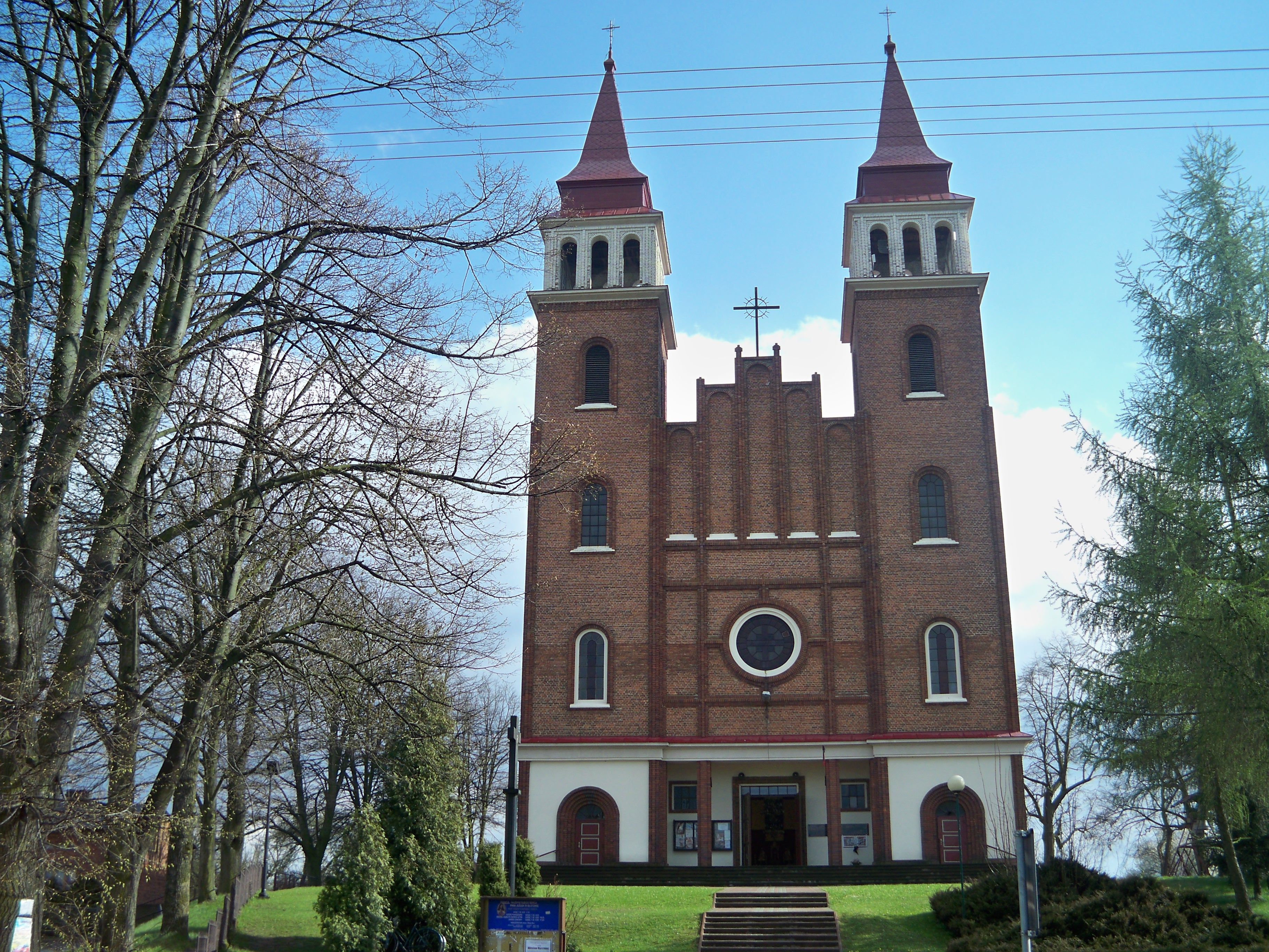 My photo